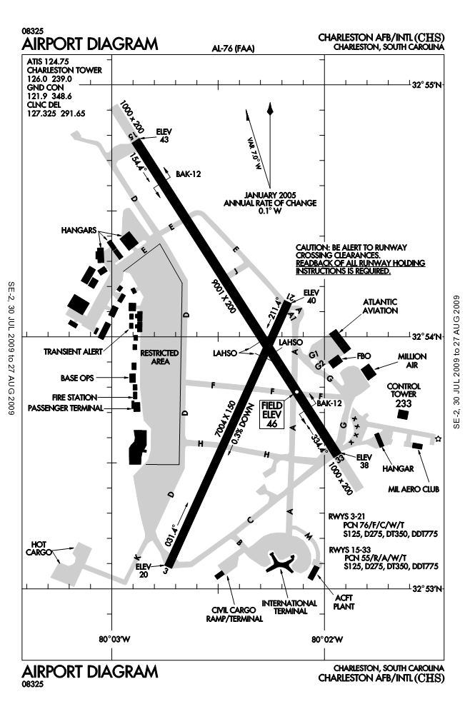 FAA airport diagram for Charleston International Airport (CHS) in North Charleston, South Carolina, United States.